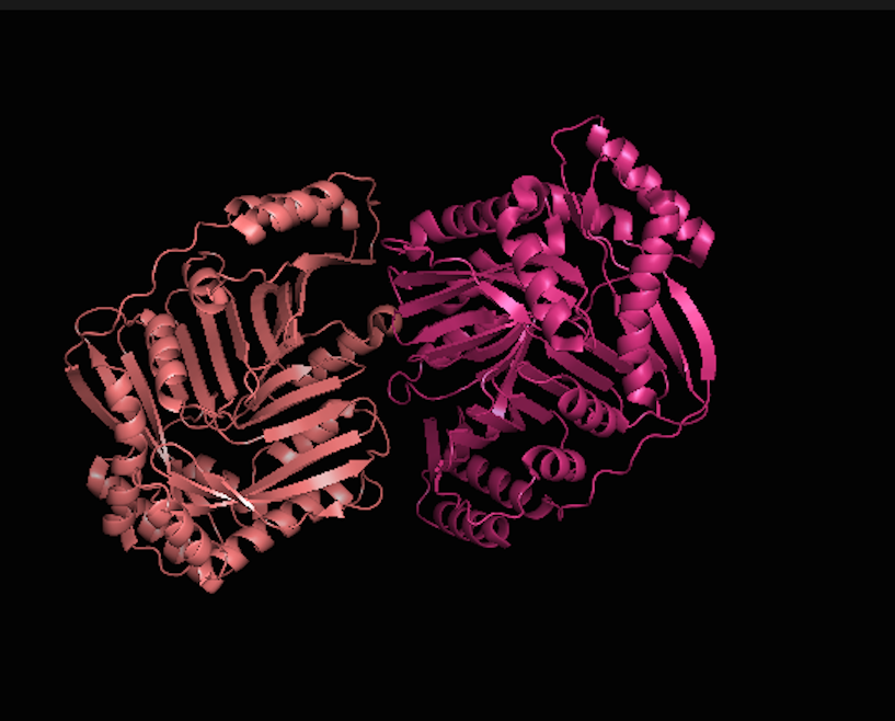 Ishochorismate synthase screenshot from Pymol